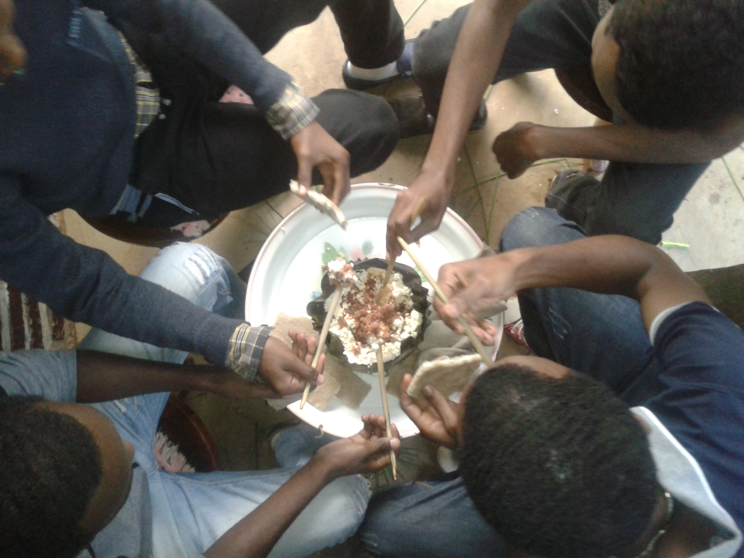 Enjoying Gurage traditional food with my friends. This is an image of food from Ethiopia